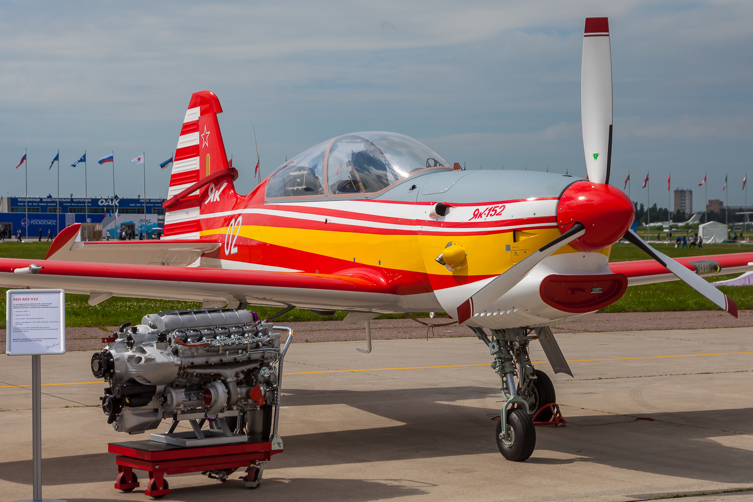 Yakovlev Yak-152 on display at MAKS 2017